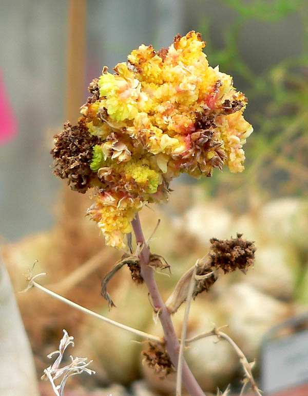 Photo of Aloe karasbergensis at the University of California Botanical Garden